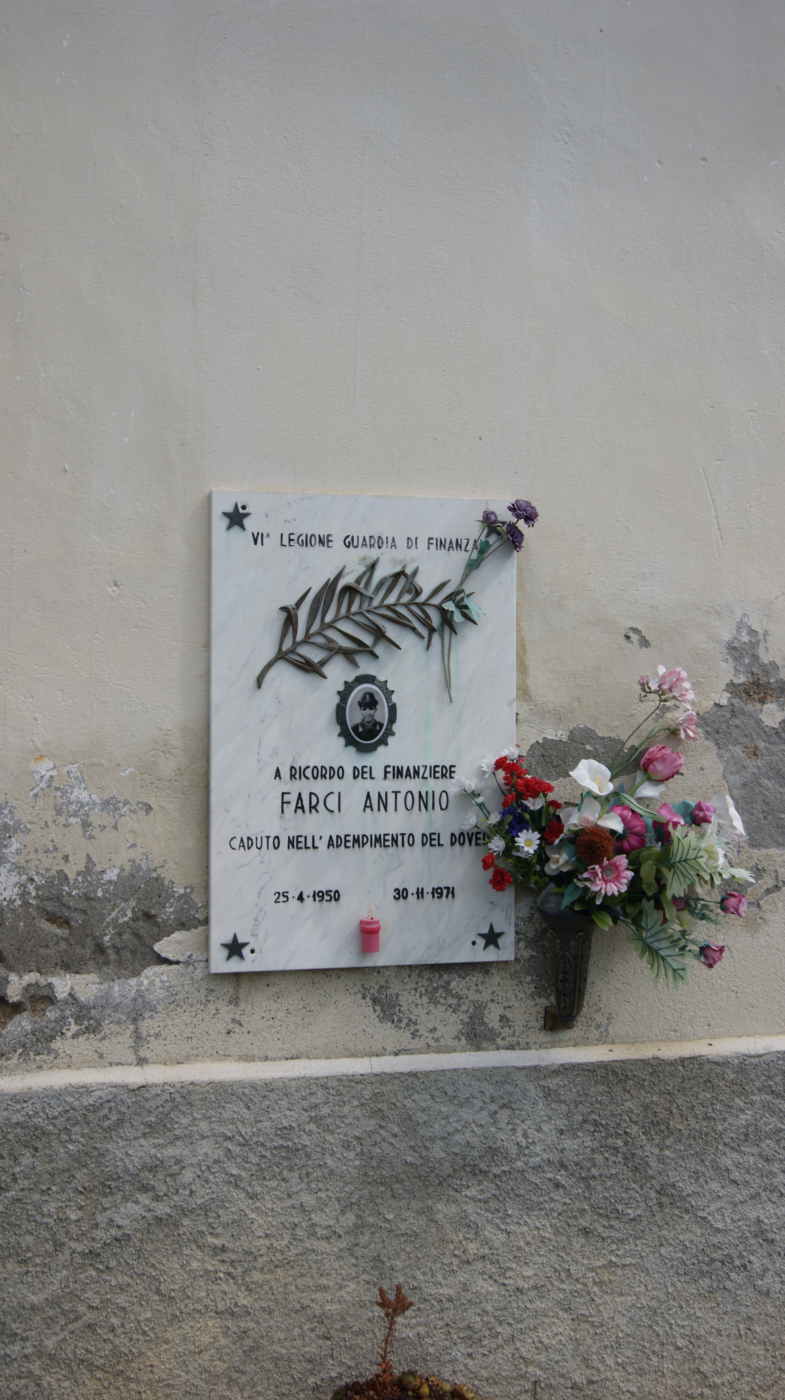 Roncaiola, part of Tirano in Italy. Church of Santo Stefano in Roncaiola, part of Tirano in Italy. Inscription / grave board for Antonio FARCI (25.04.1950 - 30.11.1971), border guard.